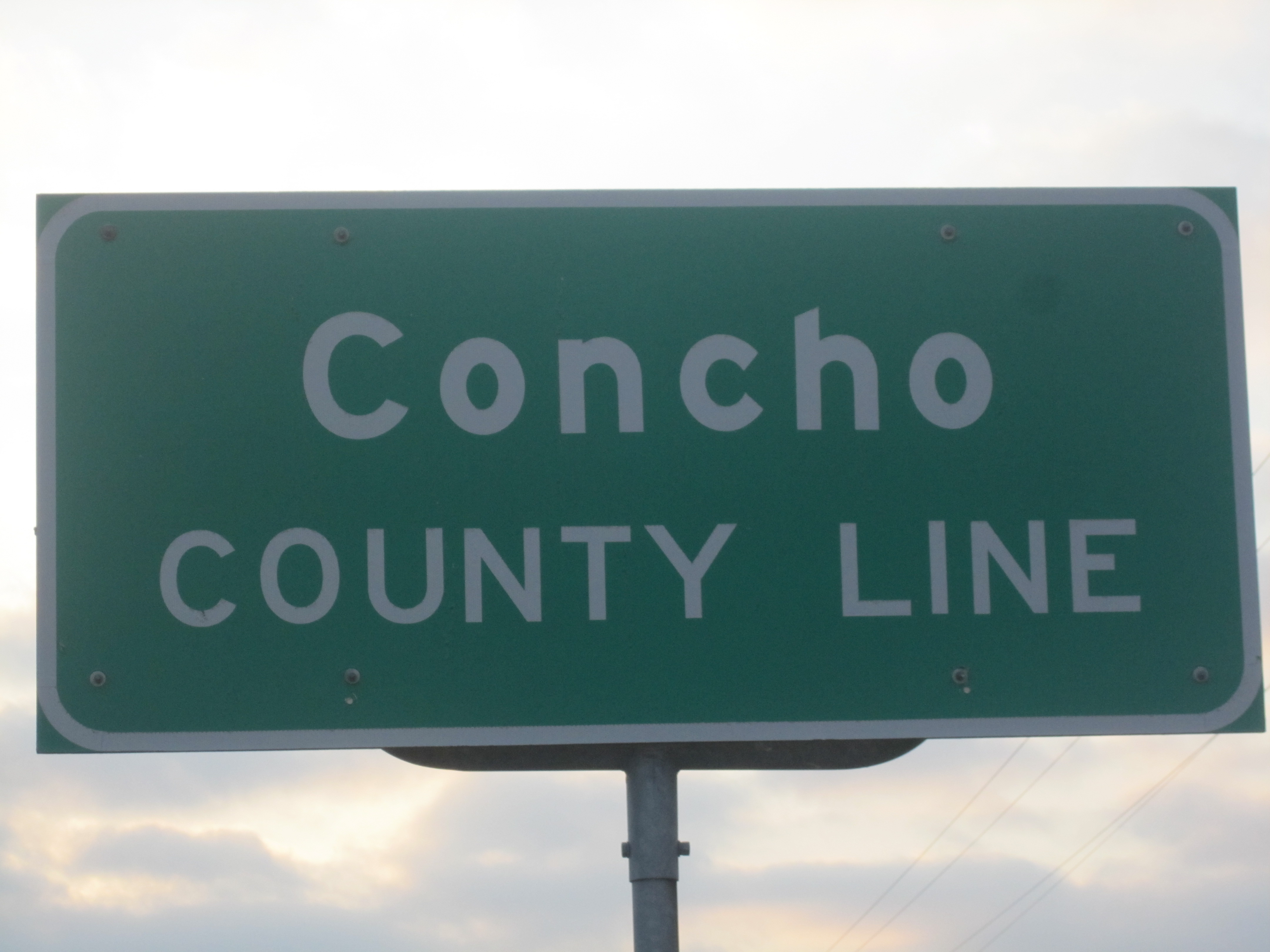 I took photo in Concho County, TX, with Canon camera.